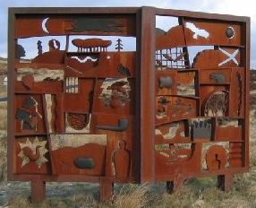 A cropped version of File:Macdiarmidmemorial.jpg MacDiarmid Memorial Bronze sculpture by Jake Harvey above Langholm. It commemorates the life and work of the Langholm born poet, Hugh MacDiarmid.